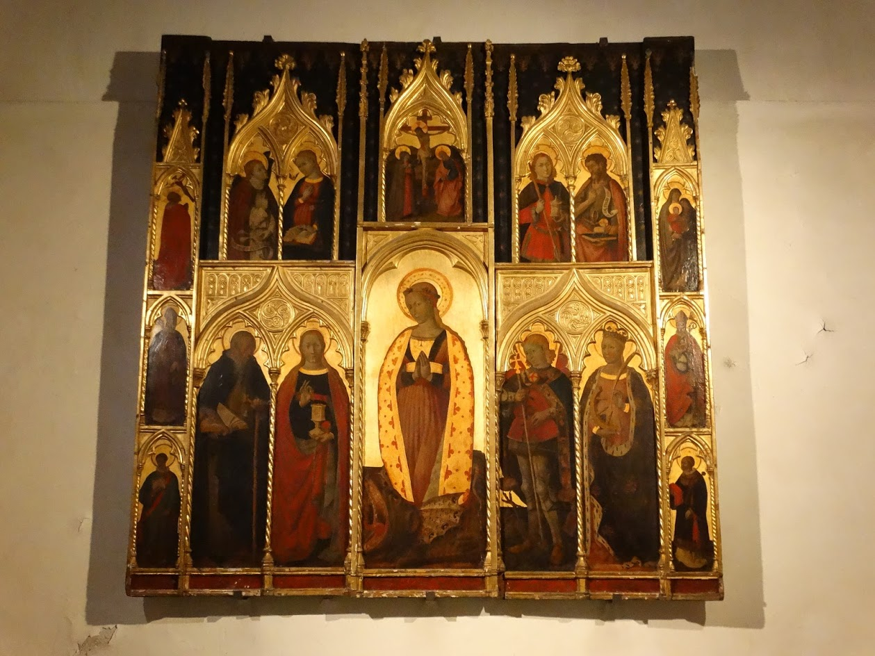 Retablo di Jacques Durandi (Frejus)